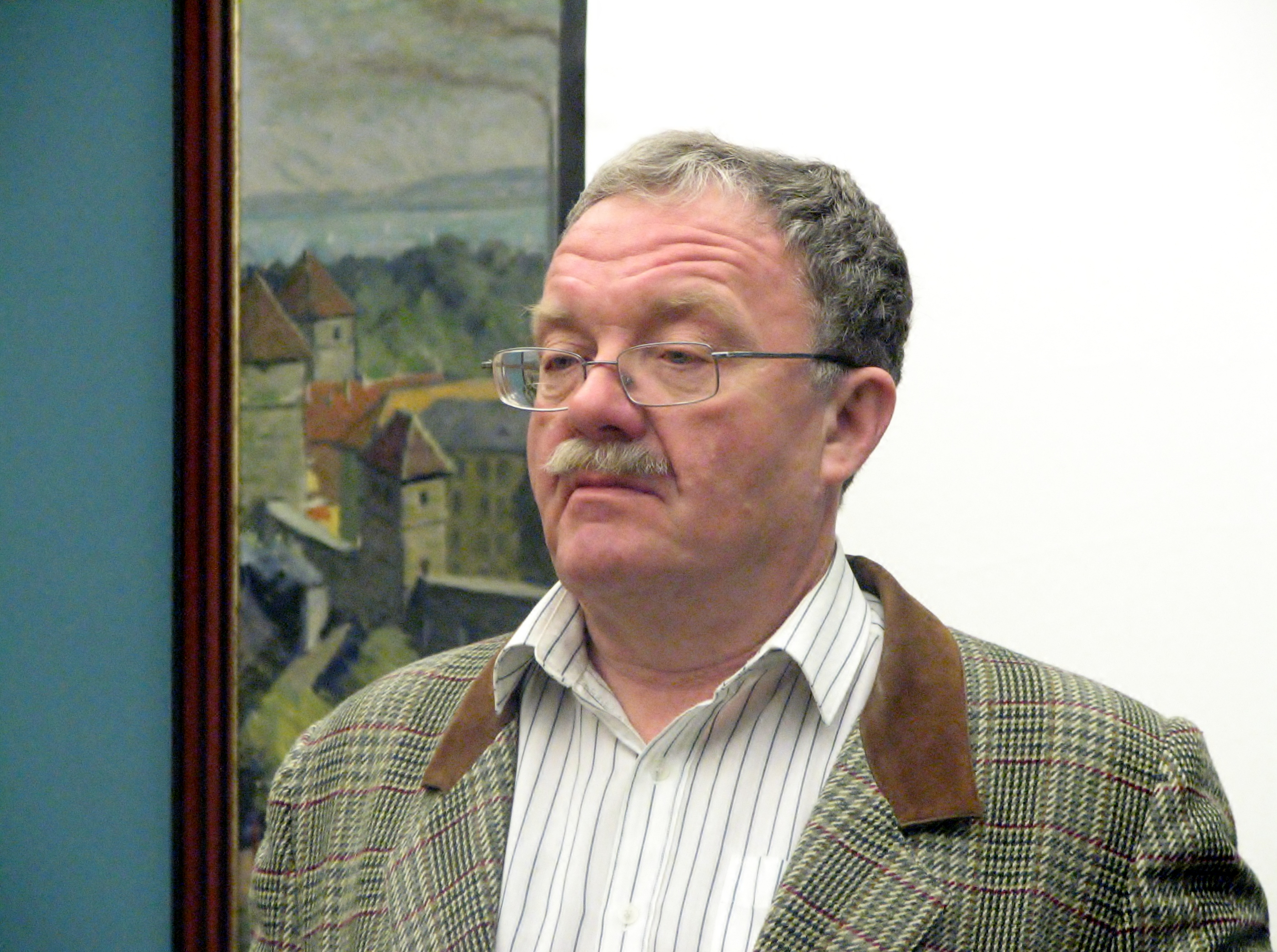 Peeter Simm performing in Central Library of Tallinn